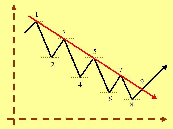 Resistance line, as used in the technical analysis of stocks. If the stock is trading at or slightly below the line, this is a sell signal; however, if it breaks through the line and rises higher, this is a buy signal.